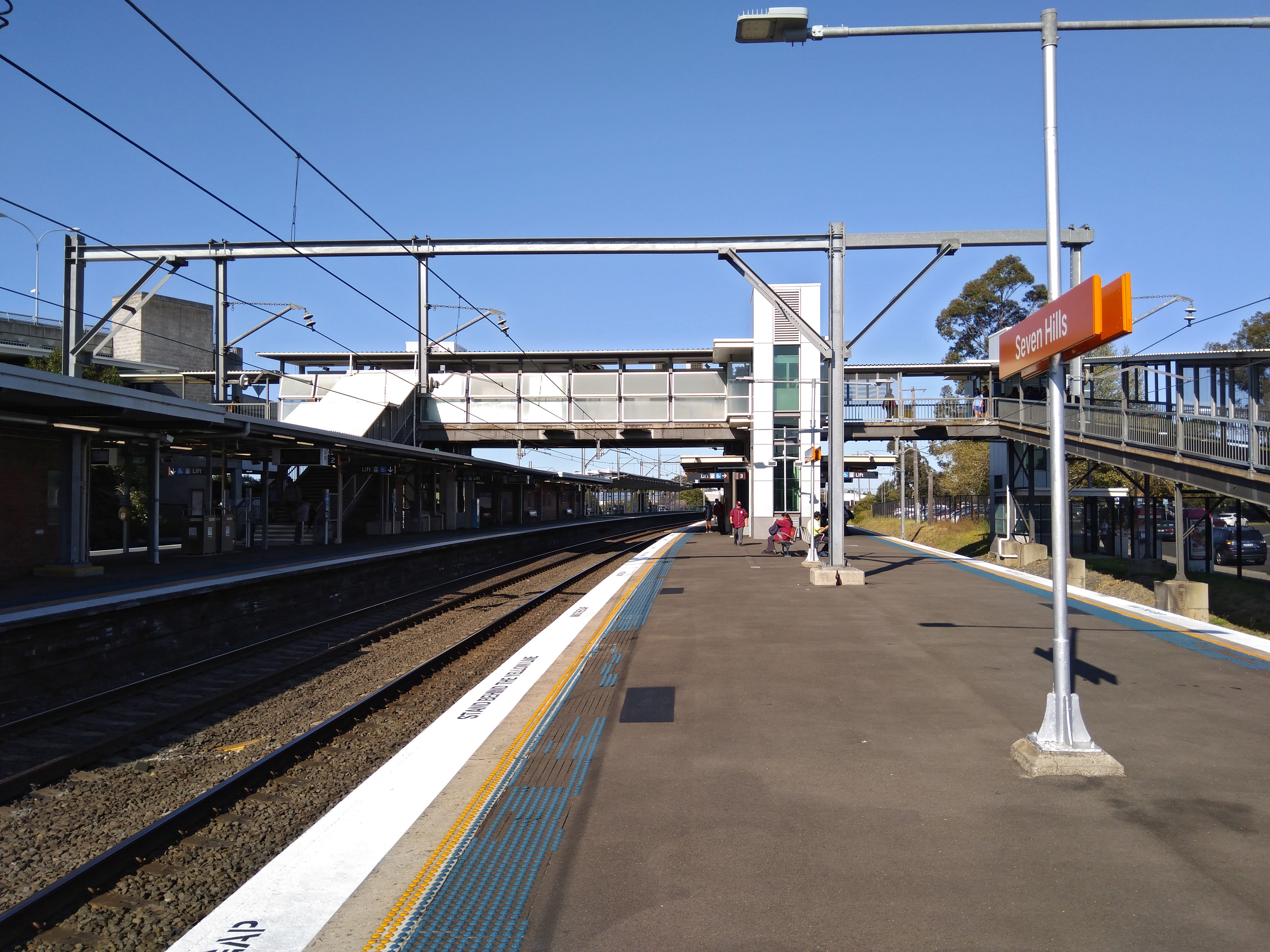 Looking east along the platforms at Seven Hills railway station.